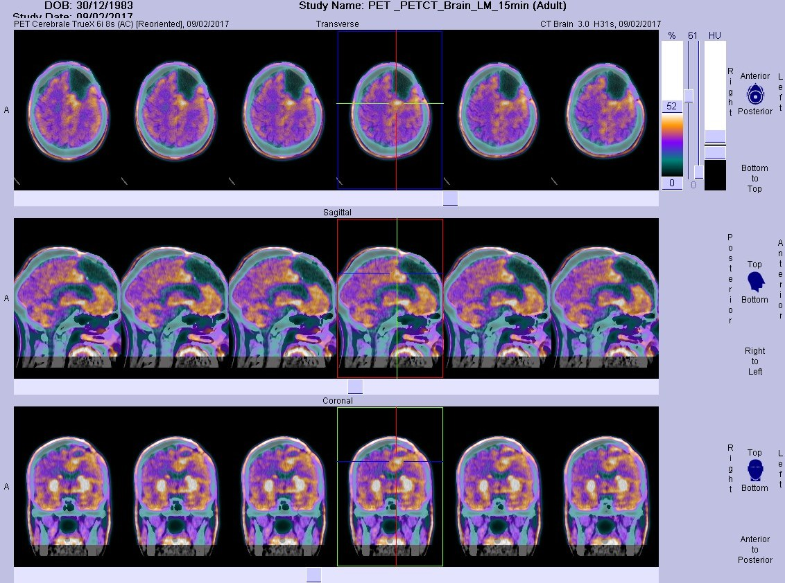 PET glioblastoma brain cancer